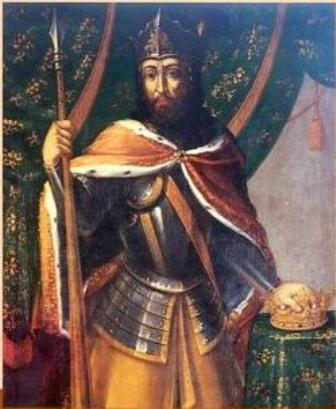 o rei